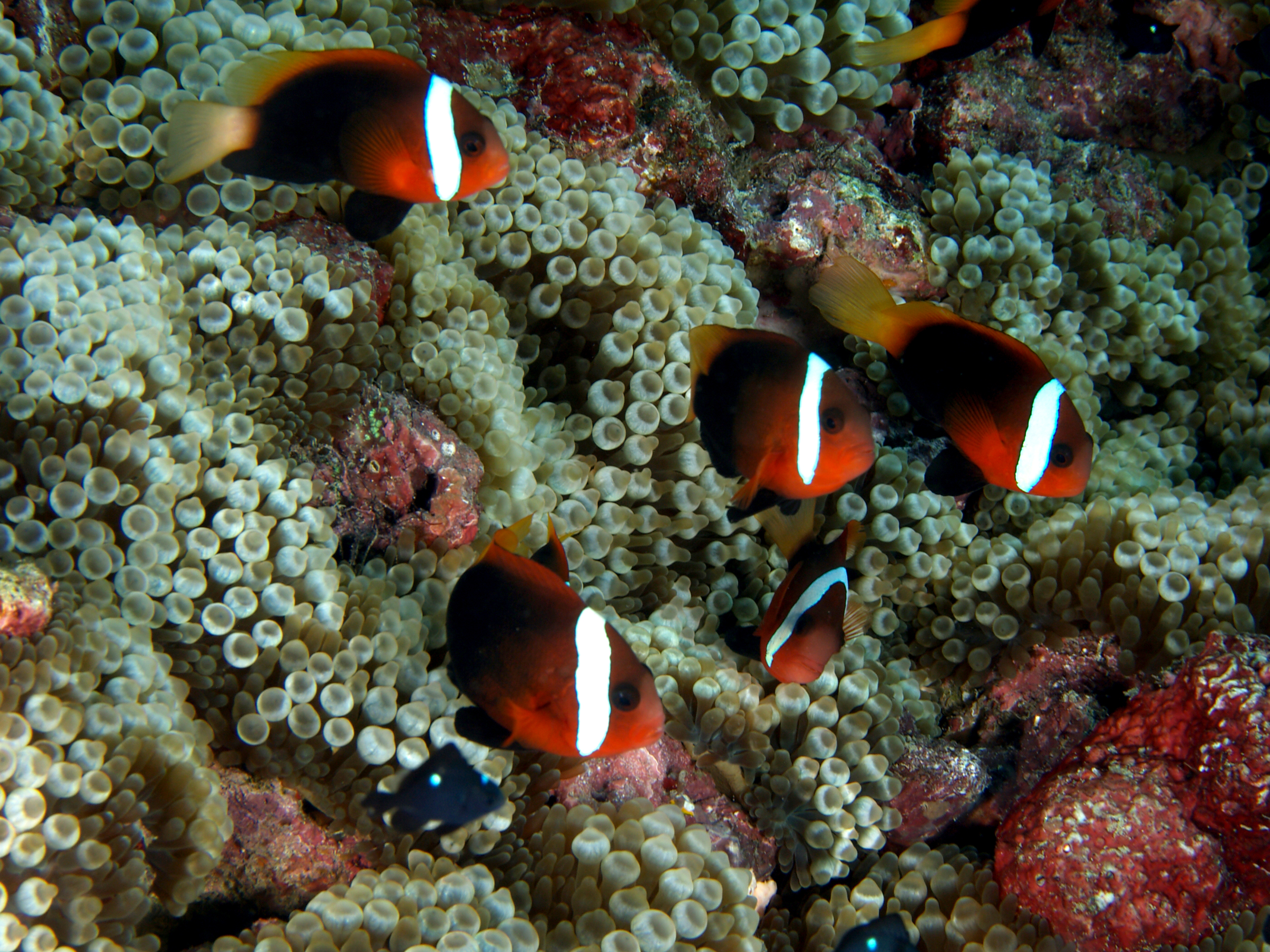 Amphiprion melanopus (Red and black anemonefish) in a field of Entacmaea quadricolor (Bubble sea anemones)